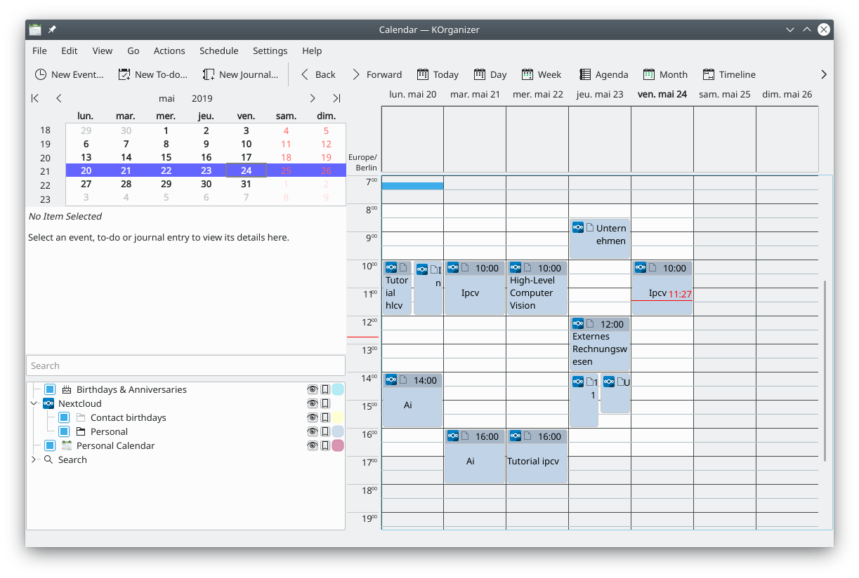 KOrganizer screenshot with Nextcloud integration